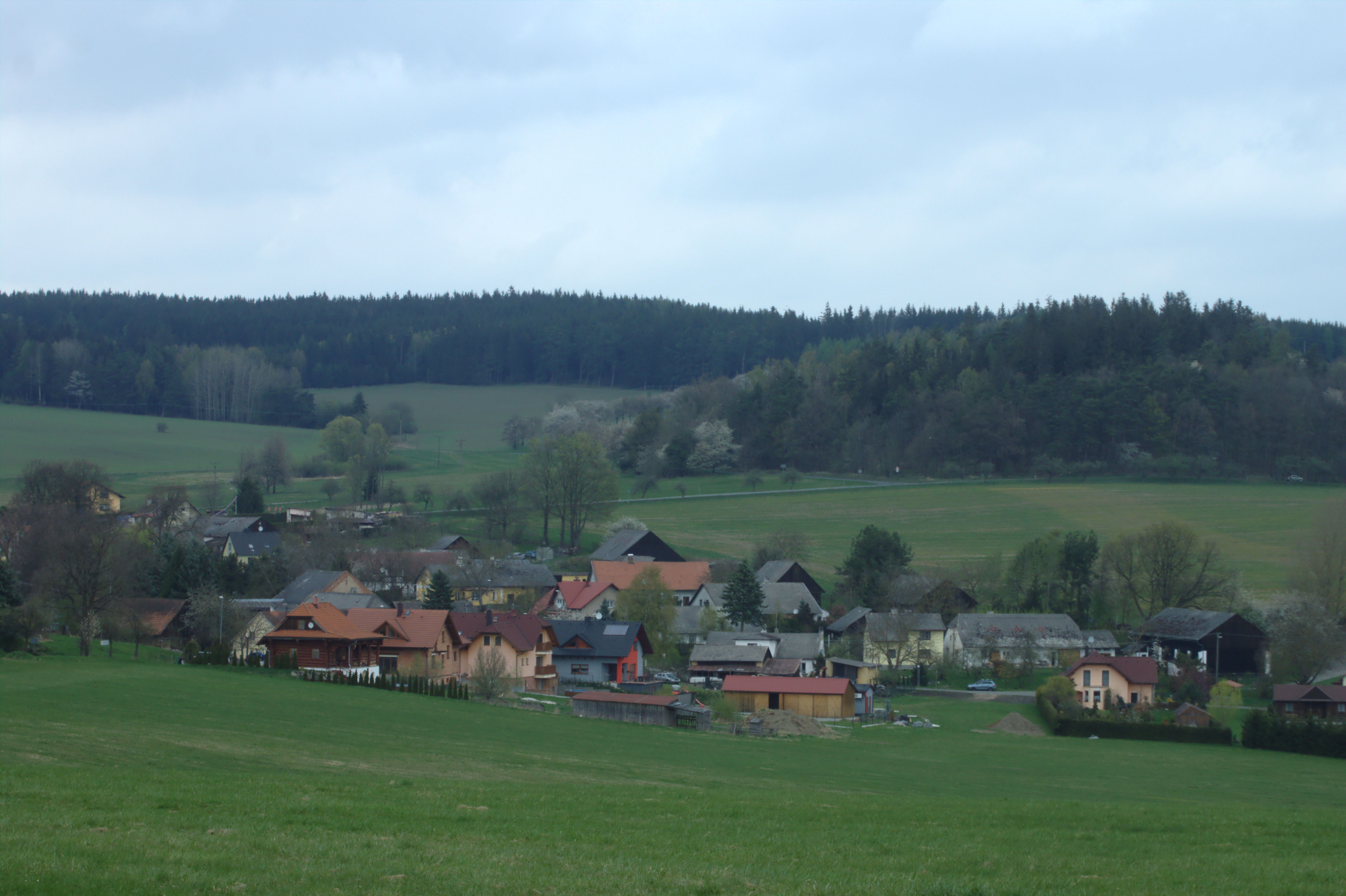 View of the village of Libkov from south, Plzeň Region, CZ